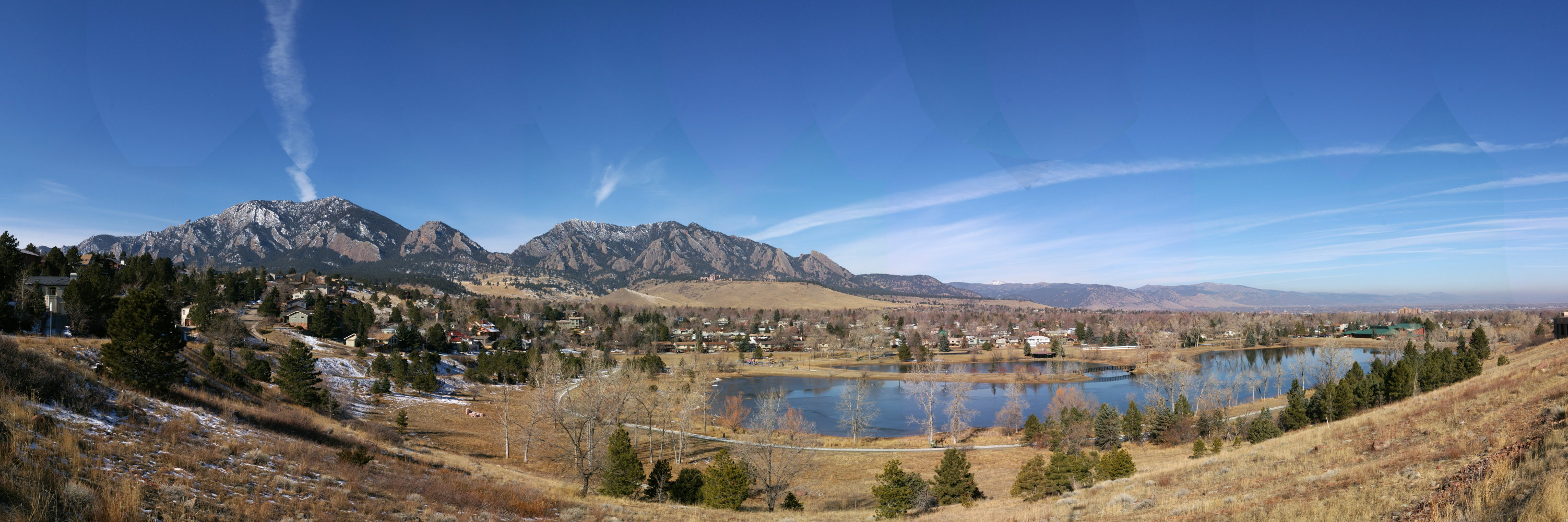 A panorama stitched from about 50 images. Taken from just south of Fairview High School, in Boulder, CO, covering about 180 degrees from south to west to north. A cropped version is File:Boulder Pano from Fairview HS cropped.jpg, if you want to use it in a smaller size.